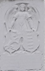 Construction inscription above the entrance of the former curate house of the von Westernach noble family in Schelklingen, dated 1599, with family coat of arms of von Westernach (left) and von Wiesenthau (right) (top view)